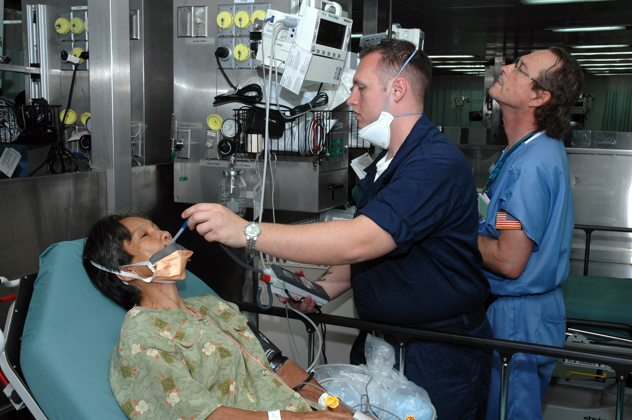 Zamboanga, Republic of the Philippines (May 29, 2006) – Navy Hospital Corpsman John Hensley takes a patient's temperature while Michael Foster, a registered nurse from Project HOPE (Health Opportunities for People Everywhere) monitors other vital information prior to receiving medical attention aboard the U.S. Military Sealift Command (MSC) hospital ship USNS Mercy (T-AH 19), anchored off the coast on a scheduled humanitarian visit. Project HOPE’s mission is to achieve sustainable advances in health care around the world by implementing health education programs, conducting health policy research, and providing humanitarian assistance in areas of need. Mercy is on a five-month deployment during which it will visit areas of South Asia, Southeast Asia, and the Pacific Islands where its crew and several health and civic related organizations will work together to aid in humanitarian and civic efforts. Like all US Naval forces, Mercy is able to rapidly respond to a range of situations on short notice. Mercy is uniquely capable of supporting medical and humanitarian assistance needs and has been configured with special medical equipment and a robust multi-specialized medical team to provide a range of services ashore as well as on board the ship. The medical staff is augmented with assistance crews, many of whom are part of non-governmental organizations and have significant medical capabilities. U.S. Navy photo by Photographer’s Mate 1st Class Michael R. McCormick (RELEASED)